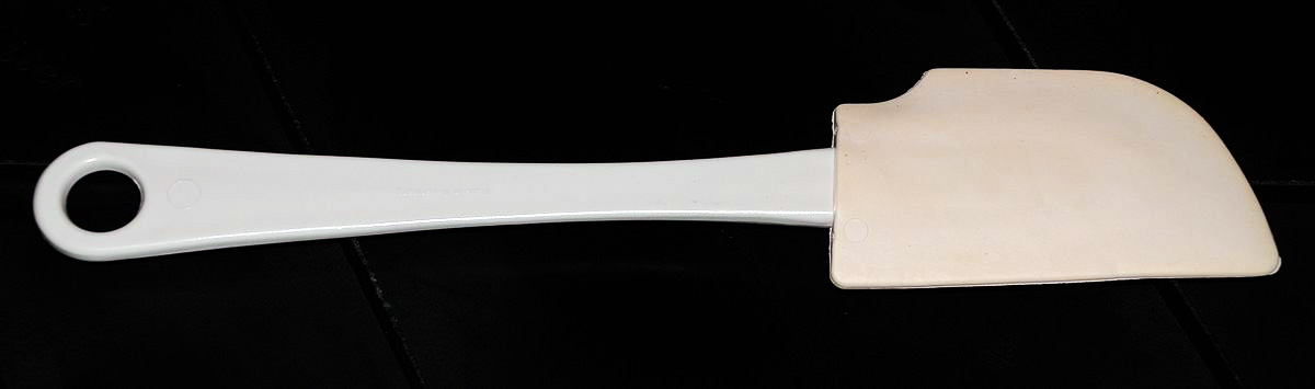 dough scraper